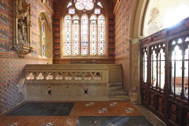 St Peter & St Paul, Albury Old Church, Surrey